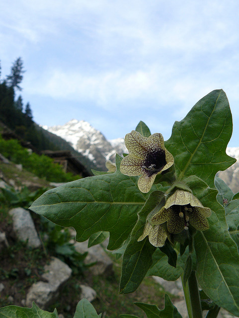 A view of Palas Valley in Khyber Pakhtunkhwa province of Pakistan.